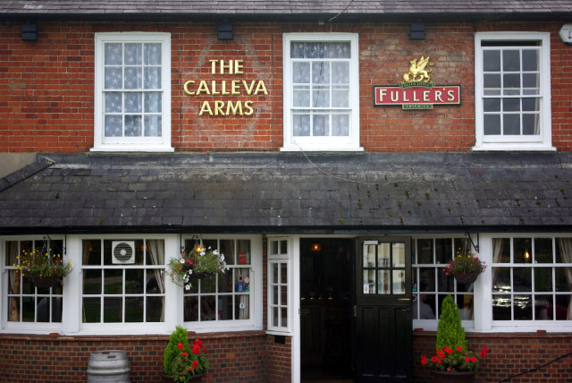 The Calleva Arms, Silchester Village pub named after the Roman town - it was previously called The Crown.